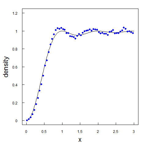 Numerical simulation of the Montgomery-Odlyzko law for the nontrivial 1st 105 zeros of the Riemann zeta function ζ(s). The solid line is the two-point correlation function of the eigenvalues of a random Hermitian matrix taken from Gaussian unitary ensemble (GUE) and given by 1-(sin(πx)/πx)2. The blue symbols indicate the pair correlation function of normalized spacings δn=(γn+1-γn)*log(γn/2π)/2π between two consecutive nontrivial zeros 1/2+iγn and 1/2+iγn+1 (n=1,,,105) of the Riemann zeta function ζ(s). Reference A. M. Odlyzko,"On the distribution of spacings between zeros of the zeta function," Math. Comp. 48 (1987), 273-308